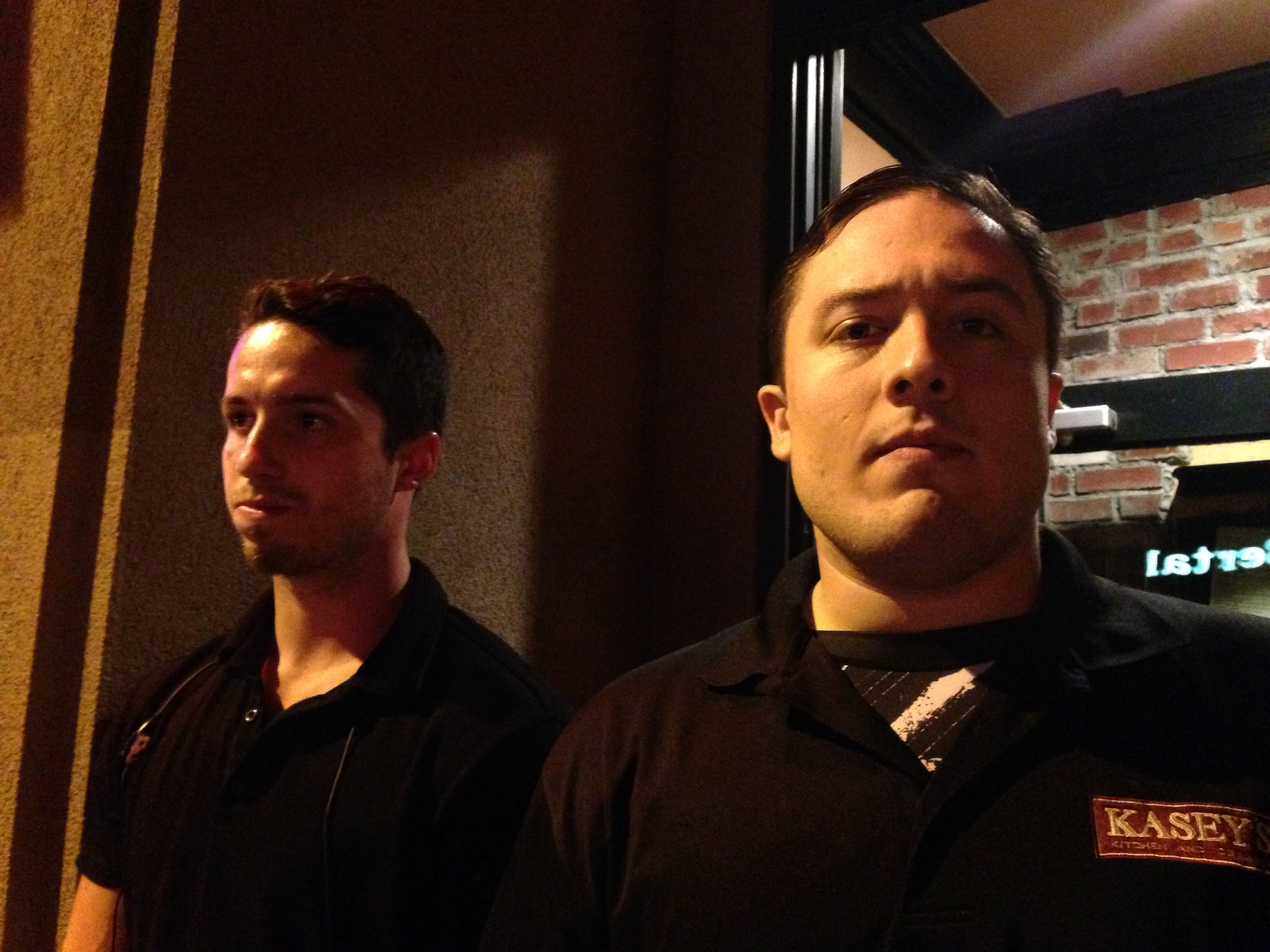 Young bouncers